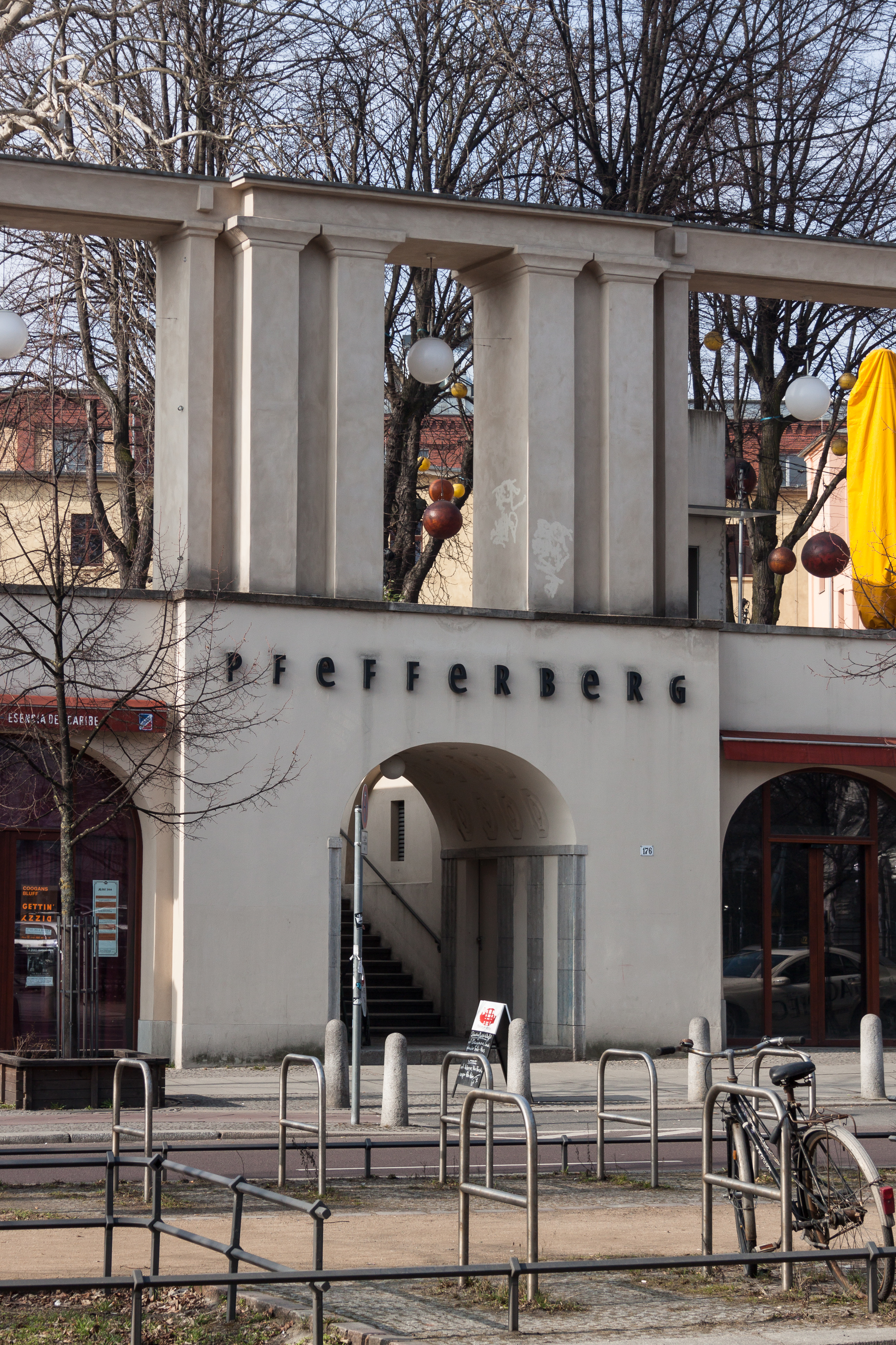 Entrance to the Pfefferberg area at Schönhauser Allee (Berlin-Prenzlauer Berg).